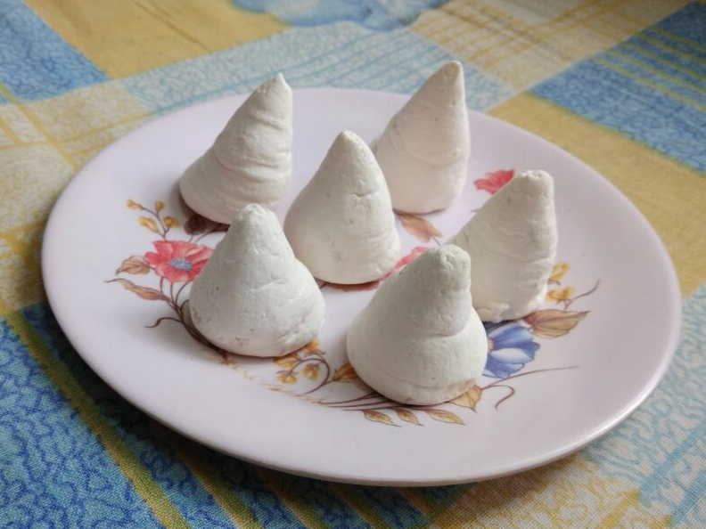 மக்ரும்